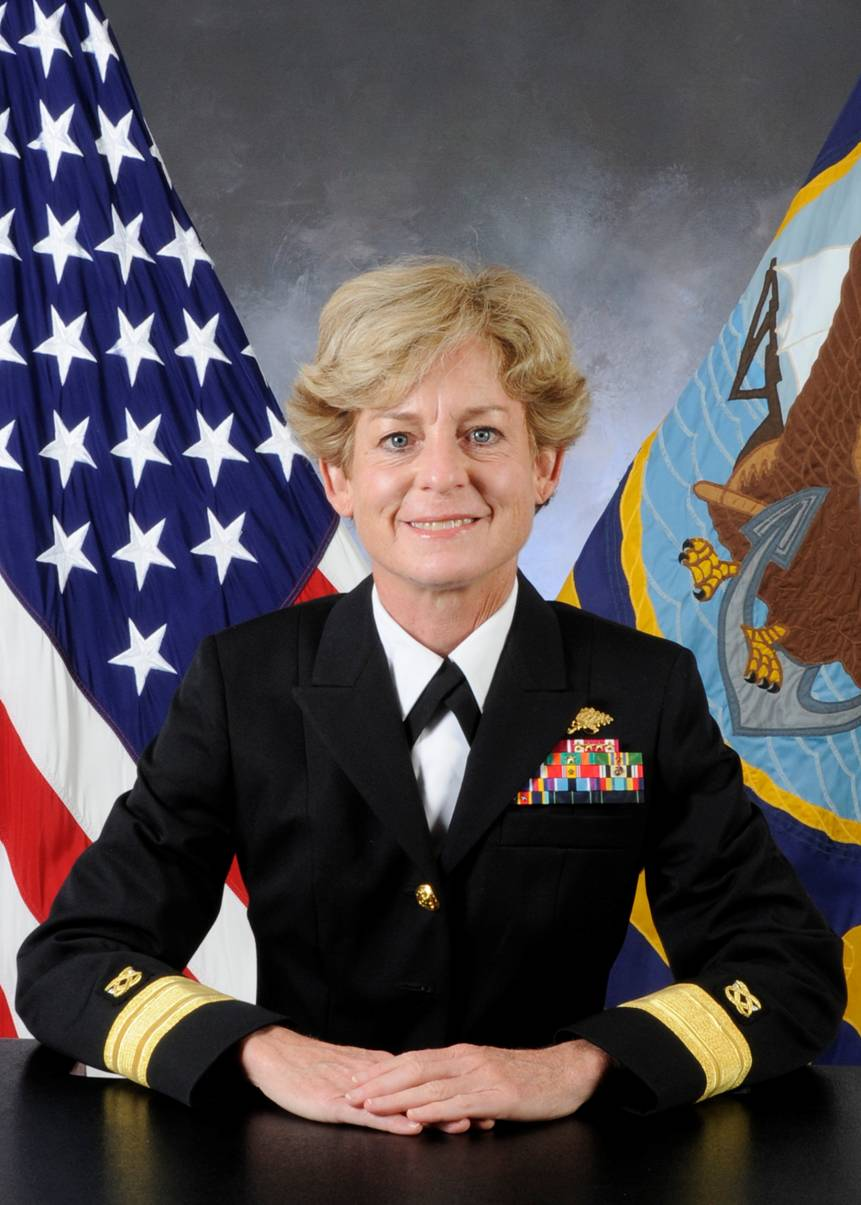 official photo of Rear Admiral Katherine L. (Kate) Gregory